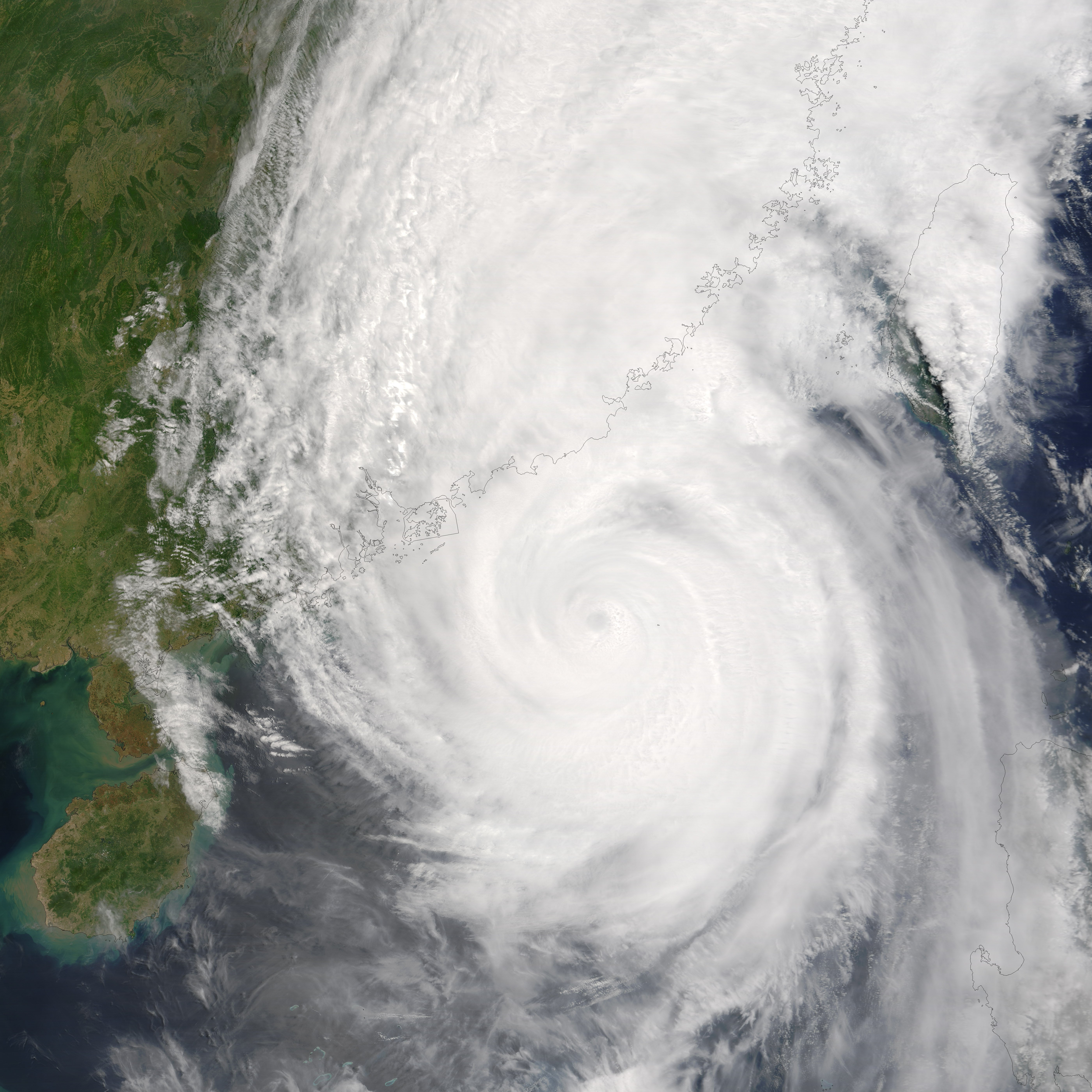 Typhoon Chanchu first formed as a tropical storm in the western Pacific on May 8, 2006, roughly 500 miles east of the Philippines. The storm gradually built strength and size, reaching typhoon strength on May 11. It lost some power as it crossed the Philippines, but once clear of the islands, it regained strength and developed powerful winds and a large cyclonic structure as it continued on a northwesterly track across the South China Sea towards Hong Kong and mainland China. This photo-like image was acquired by the Moderate Resolution Imaging Spectroradiometer (MODIS) on the Terra satellite on May 17, 2006, at 11:15 a.m. local time (03:15 UTC). The typhoon has a huge spiral-arm structure in this image and a well-defined cyclone shape, with a distinct, but cloud-covered eye (sometimes known as a “closed eye”) in the center. Sustained winds in the storm system were estimated to be around 185 kilometers per hour (115 miles per hour) around the time the image was captured, according to the University of Hawaii’s Tropical Storm Information Center. The high-resolution image provided above is provided at the full MODIS spatial resolution (level of detail) of 250 meters per pixel. The MODIS Rapid Response System provides this image at additional resolutions.